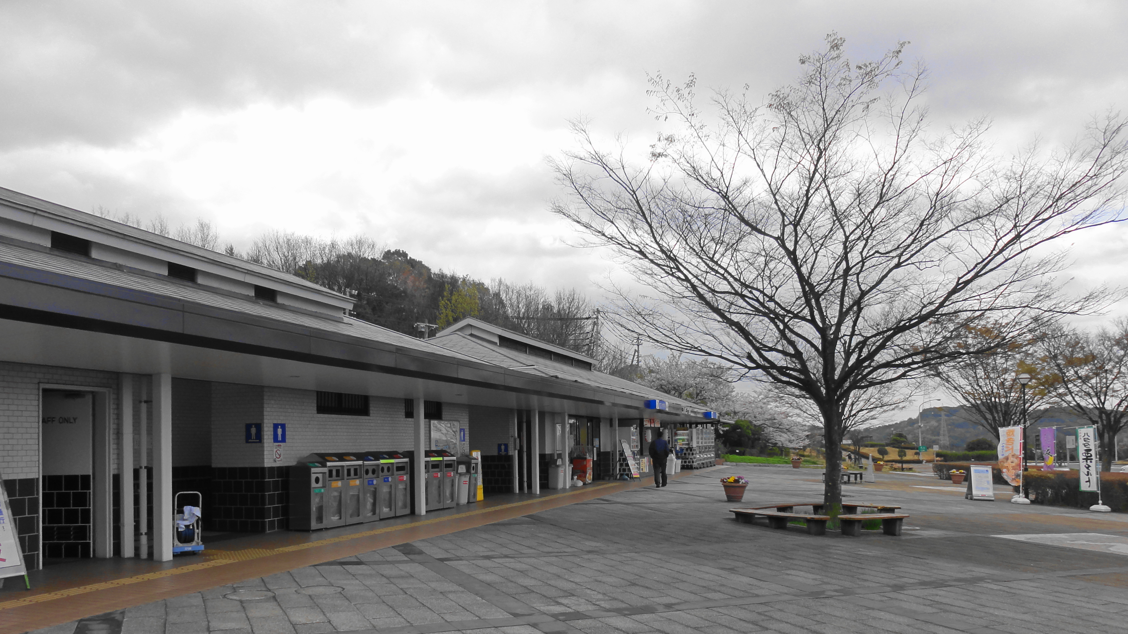 Kōnoike Service Area ,Okayama prefecture, Japan